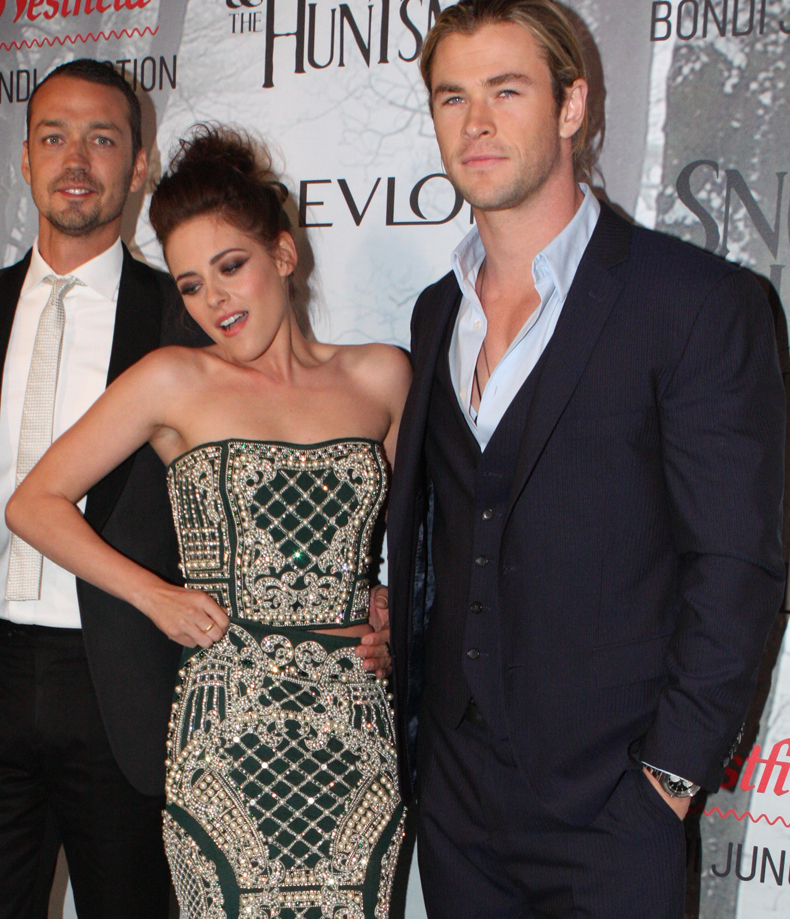 Kristen Stewart & Chris Hemsworth at the Snow White and the Huntsman movie premiere - Bondi Junction, Sydney Australia 2012.